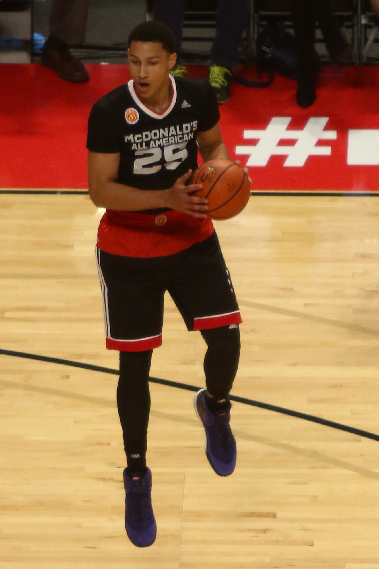 Ben Simmons in the w:2015 McDonald's All-American Boys Game